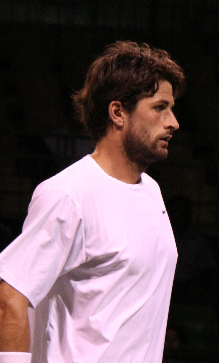 Olivier Patience at the 2007 Australian Open, during his first-round mens doubles match, partnering Sebastien Grosjean.